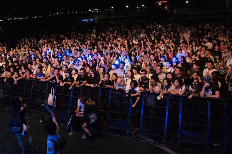 The audience at the 2015 Echo Park Festival in Shanghai.(张杨北路2700号上海瑞可碧橄榄球俱乐部回声公园音乐节)